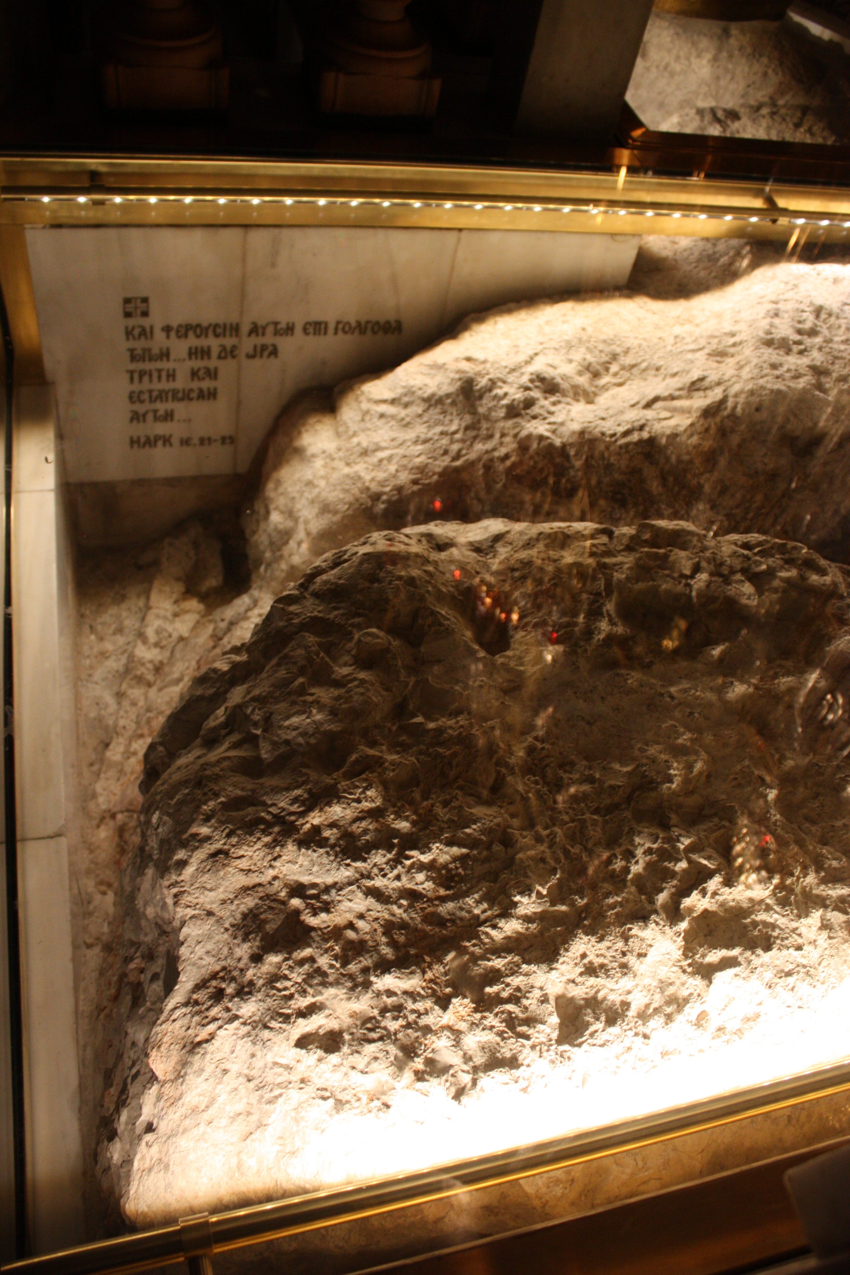 Calvary stone near the 12th station of Via Dolorosa in Golgotha in the Holy Sepulchre, Jerusalem.